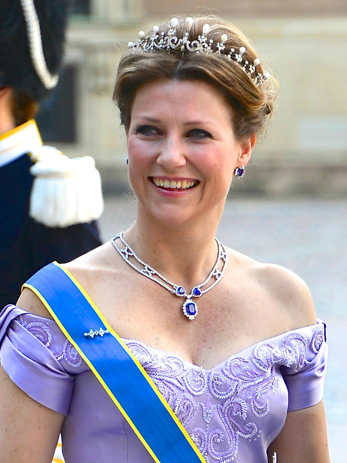 Princess Märtha Louise of Norway on the way to the castle church at the Royal Palace in Stockholm before the wedding between Princess Madeleine and Christopher O'Neill June 8, 2013.